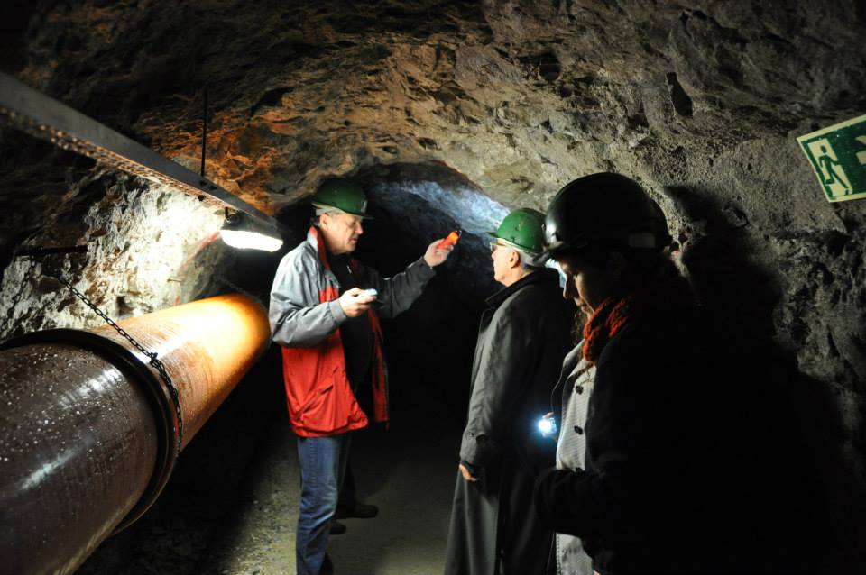 Ambassador Hartley Visits Huda Jama